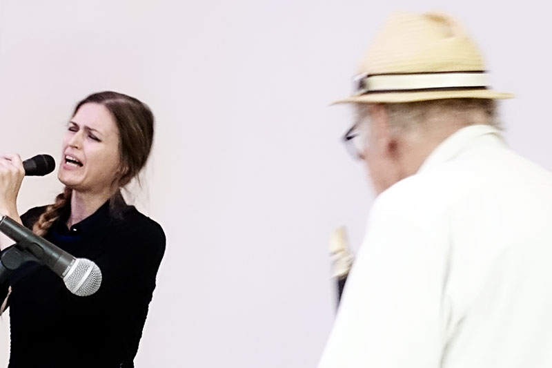 Randi Laubek at Aarhus Jazz Festival 2016